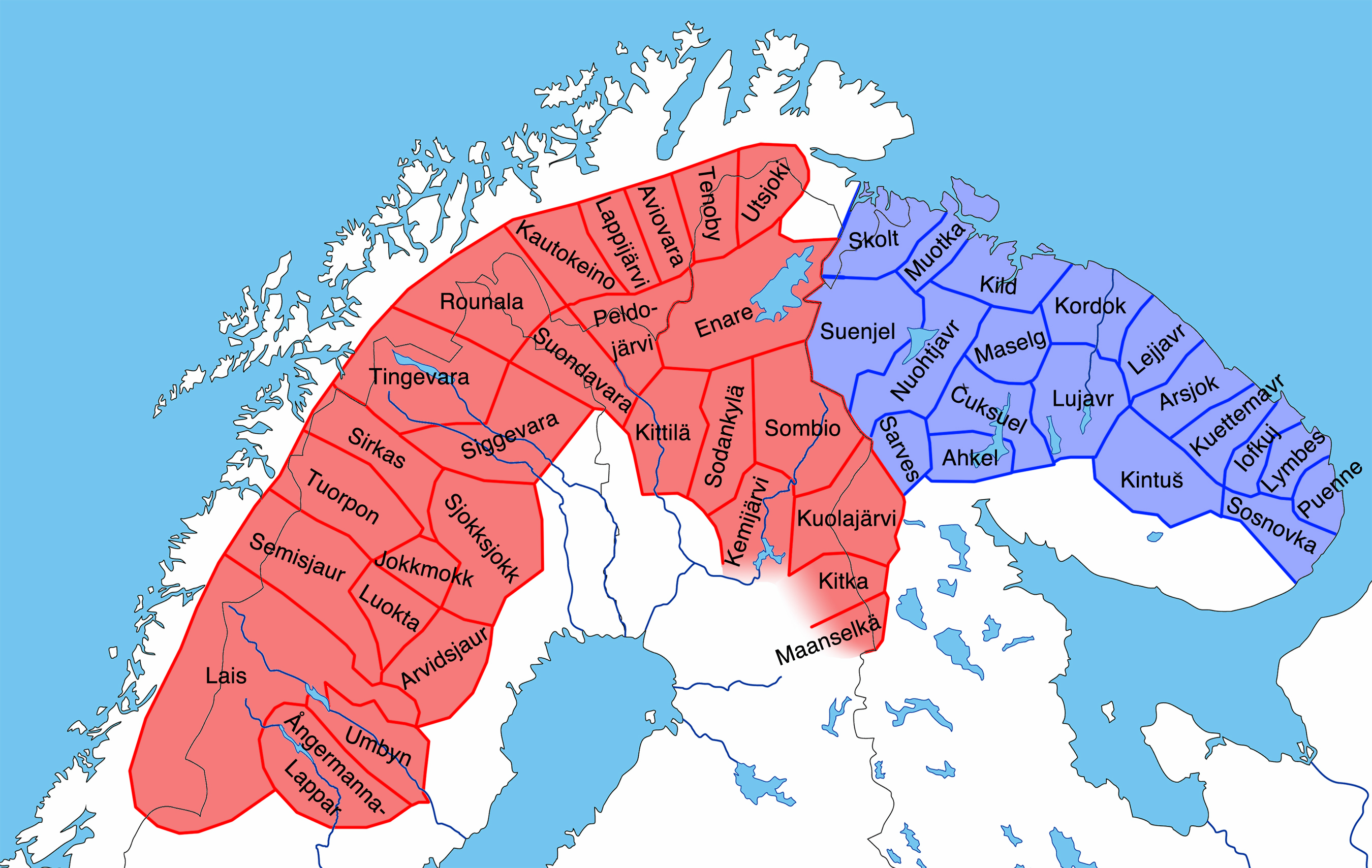 Reconstructions of Sami community areas in older times. Most of the map was originally published by Filip Hultblad (1968) in "Övergång från nomadism till agrar bosättning i Jokkmokks socken". It shows the situation in the 16th (Sweden and Norway) and 17th (Finland) centuries. The part covering the Kola peninsula was originally published by Karl Nickul in "The lappish nation" from 1977 and shows the situation in the beginning of the 19th century.